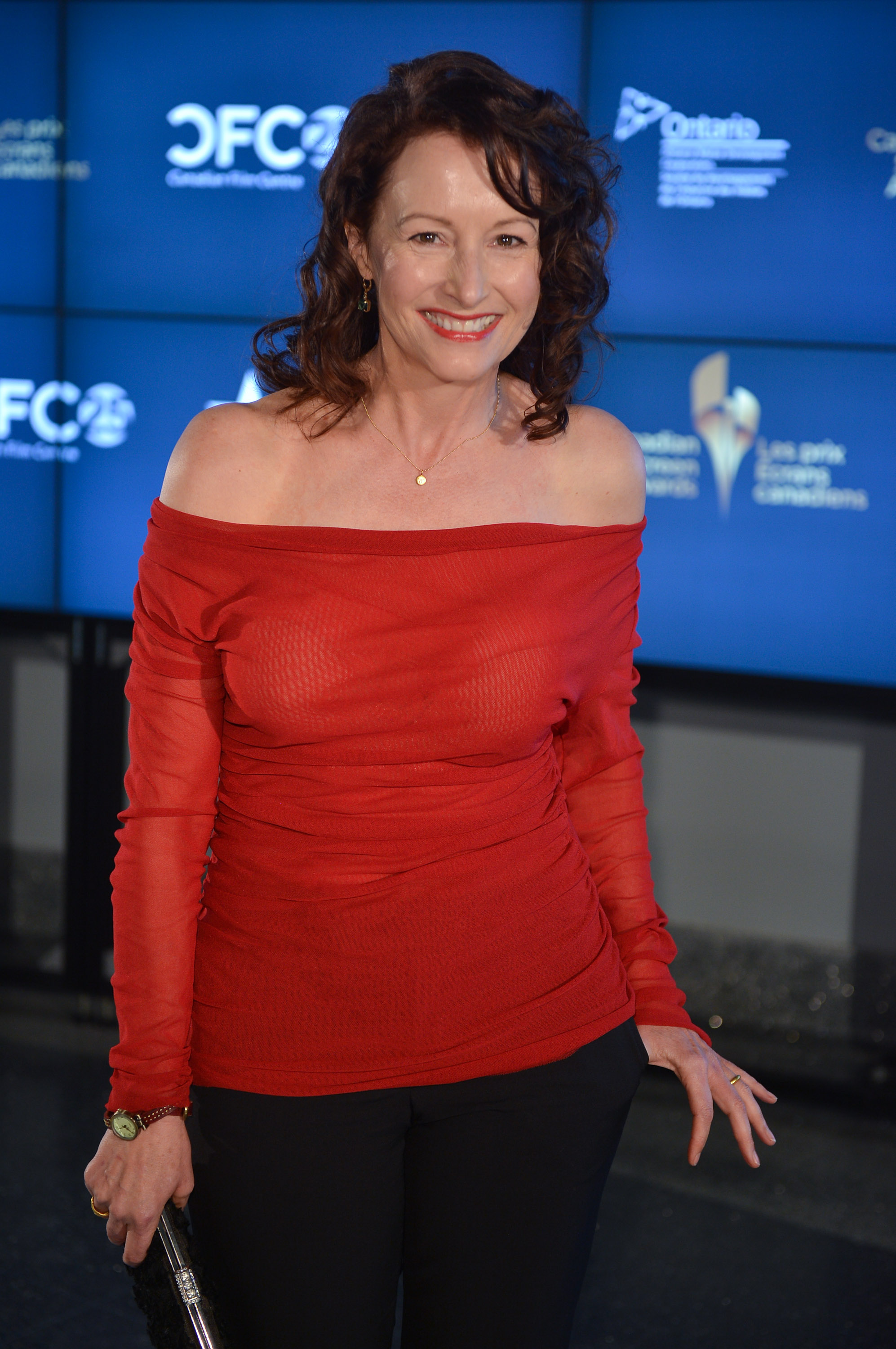 Actress Wendel Meldrum On March 1, 2013, the CFC, in support of the The Academy of Canadian Cinema & Television (Academy), celebrated Canadian talent at the Canadian Screen Awards Nominee Reception. Academy's new Canadian Screen Awards recognize excellence in film, television and digital media productions. This marked the inaugural year for the Canadian Screen Awards.